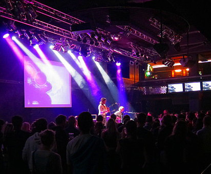 DVA onstage at the Lucerna Music Bar in Prague, CZ on November 26, 2012 LHCollins.